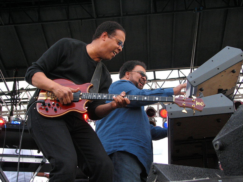 description: Bassist Stanley Clarke & keyboardist George Duke 2006 photographer: ga8waybrotha photographer_location: St. Louis photographer_url: [1] flickr_url: [2] taken:June 24, 2006